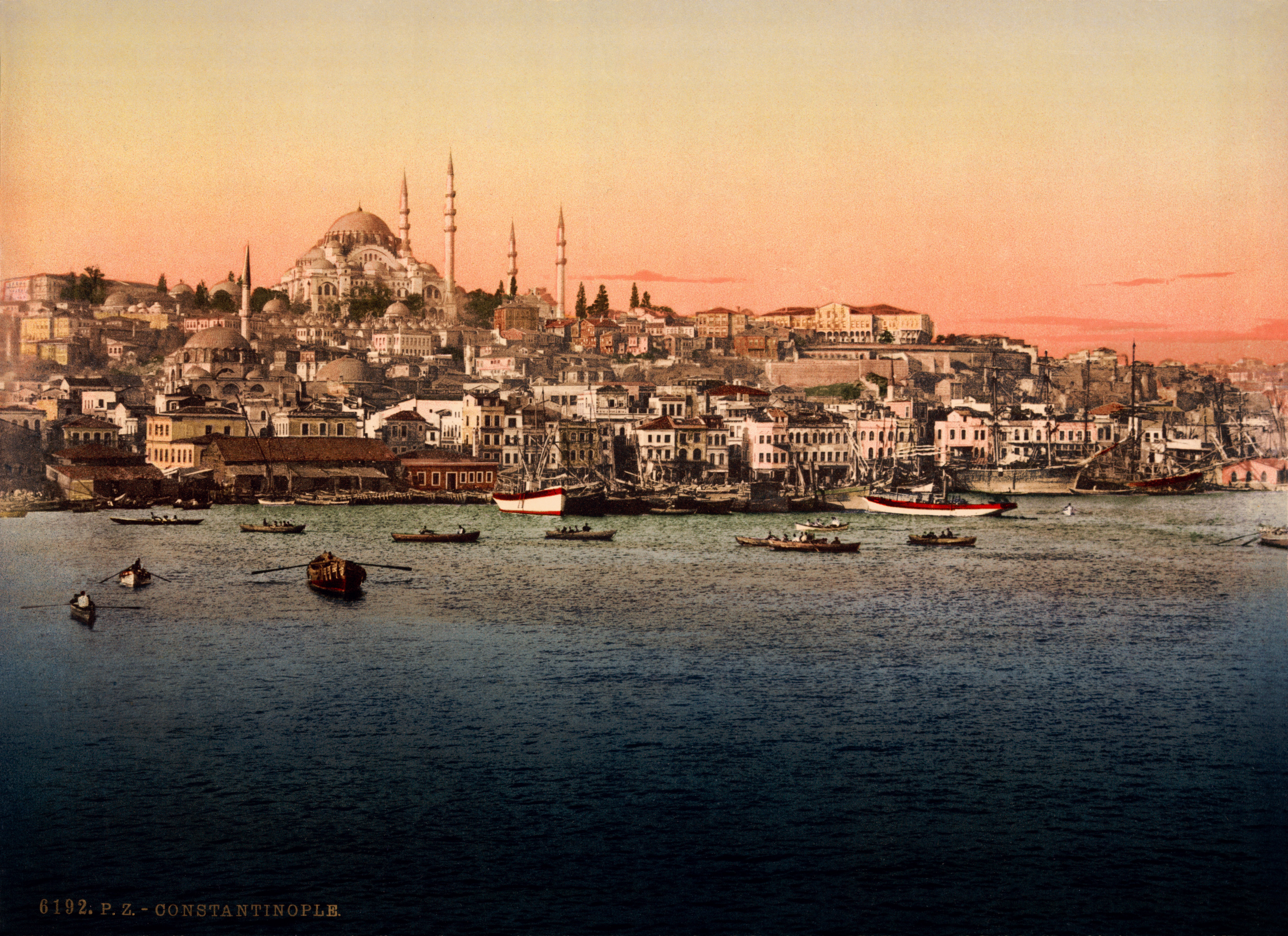 Constantinople. 1 photomechanical print : photochrom, color.